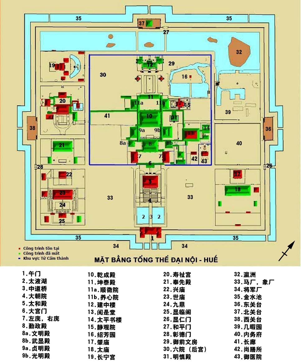 Plan of Hue Imperial Citadel, Chinese translation based on original work uploaded to by User:Lưu Ly中文（中国大陆）: 越南顺化皇城平面图，来自维基共享资源，由User:Lưu Ly原图翻译修改